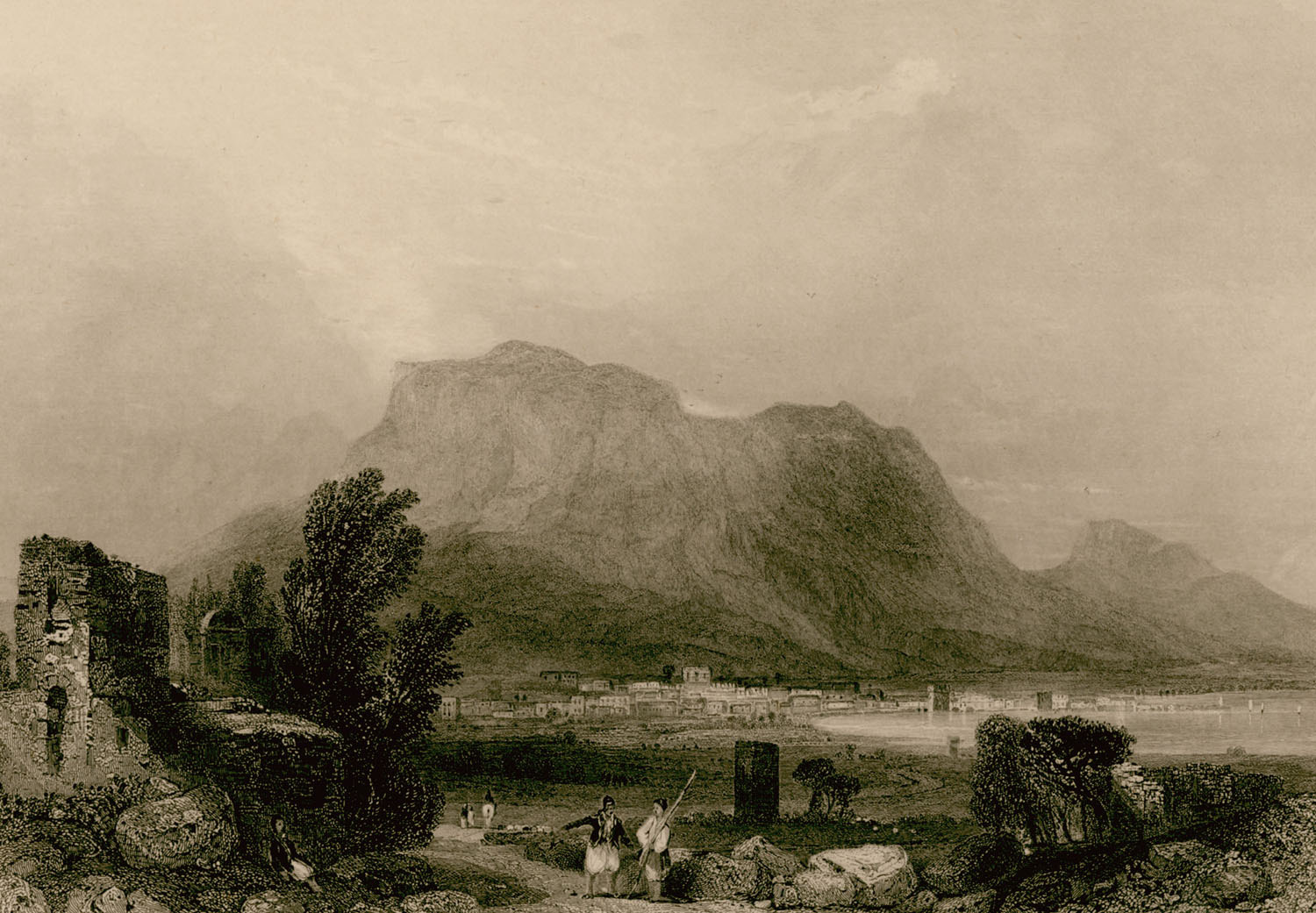 Christopher Wordsworth. Greece Pictorial, Descriptive, & Historical, and a History of the Characteristics of Greek Art, London, John Murray, 1882.